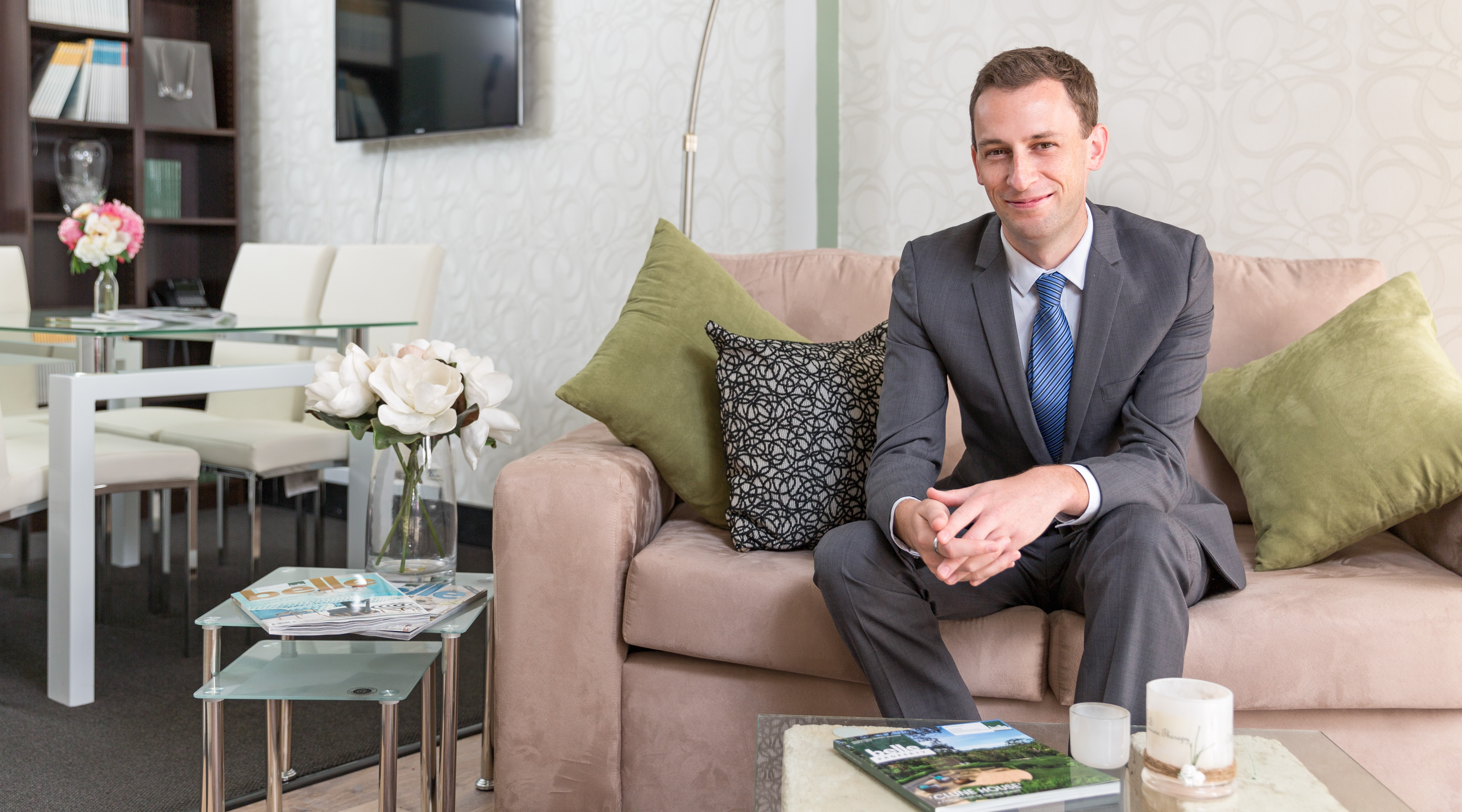 Australian artist manager, Adam Wilkinson, Sydney